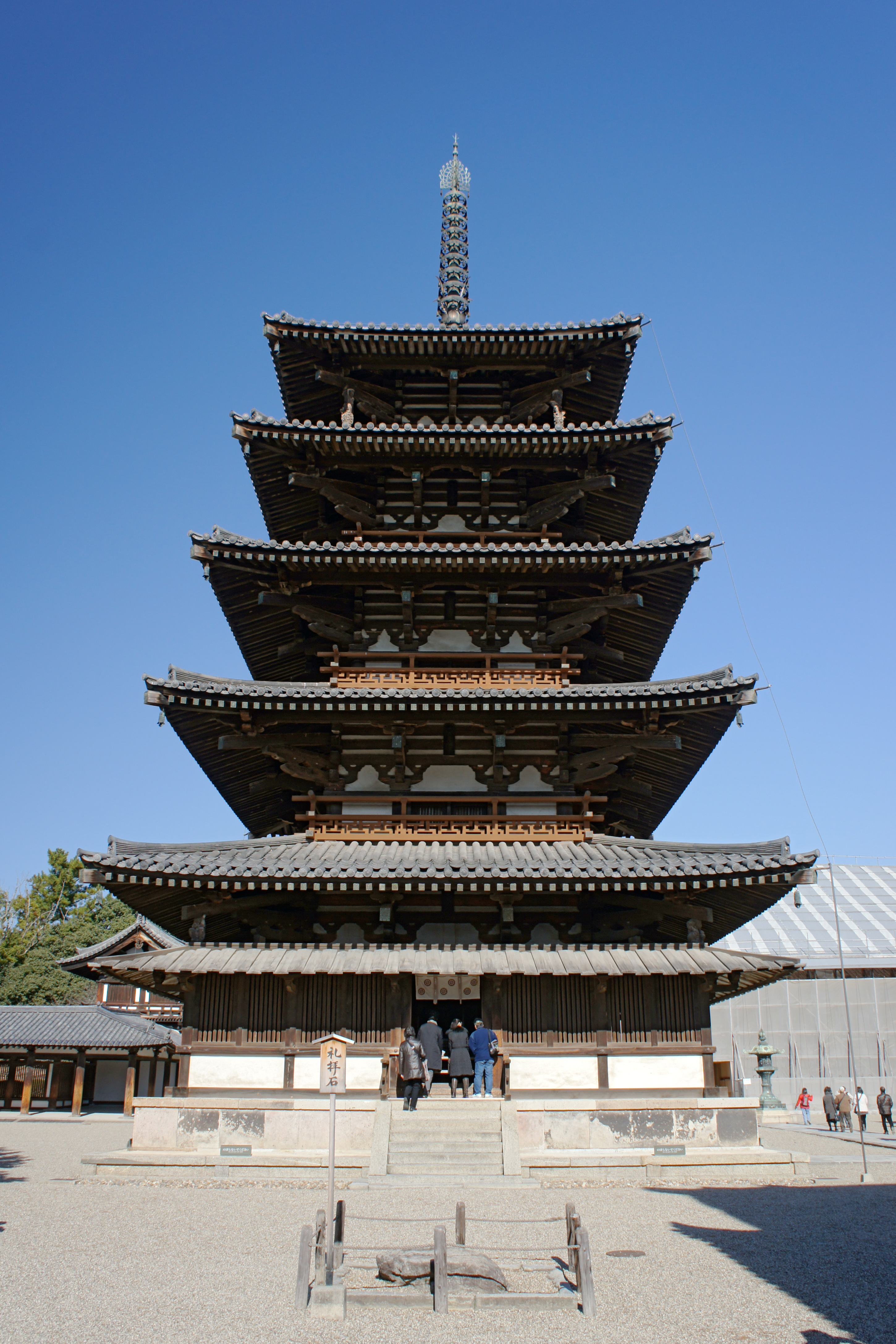 Five-storied Pagoda of Hōryū-ji is a Japan's National Treasure. Hōryū-ji is a Buddhist temple in Ikaruga, Nara prefecture, Japan. It was registered as part of the UNESCO World Heritage Site "Buddhist Monuments in the Hōryū-ji Area".